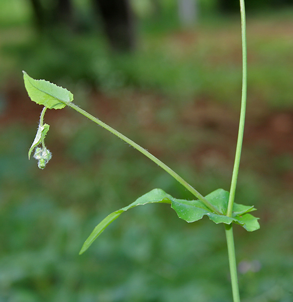 Flora's Paintbrush, Sadamandi, Cupid's shaving-brush, purple sow thistle or red tassel-flower Emilia sonchifolia in Hyderabad , India.